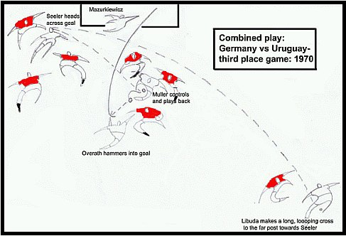 Version 2- combined attacking play in soccer/football:- German skills- Libuda- Seeler- Muller- Overath - 1970 - self-made illustration